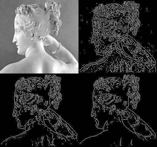 Image by Rothwell operator